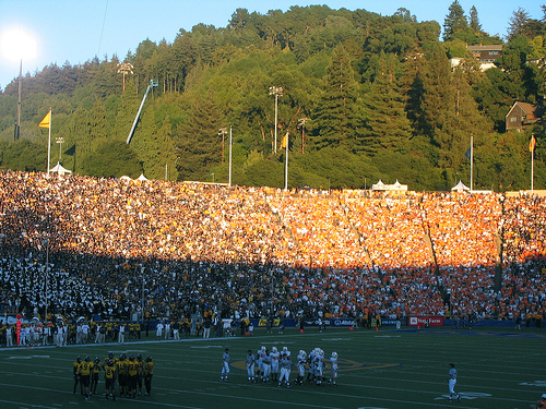 Tennessee Volunteers at California Golden Bears.